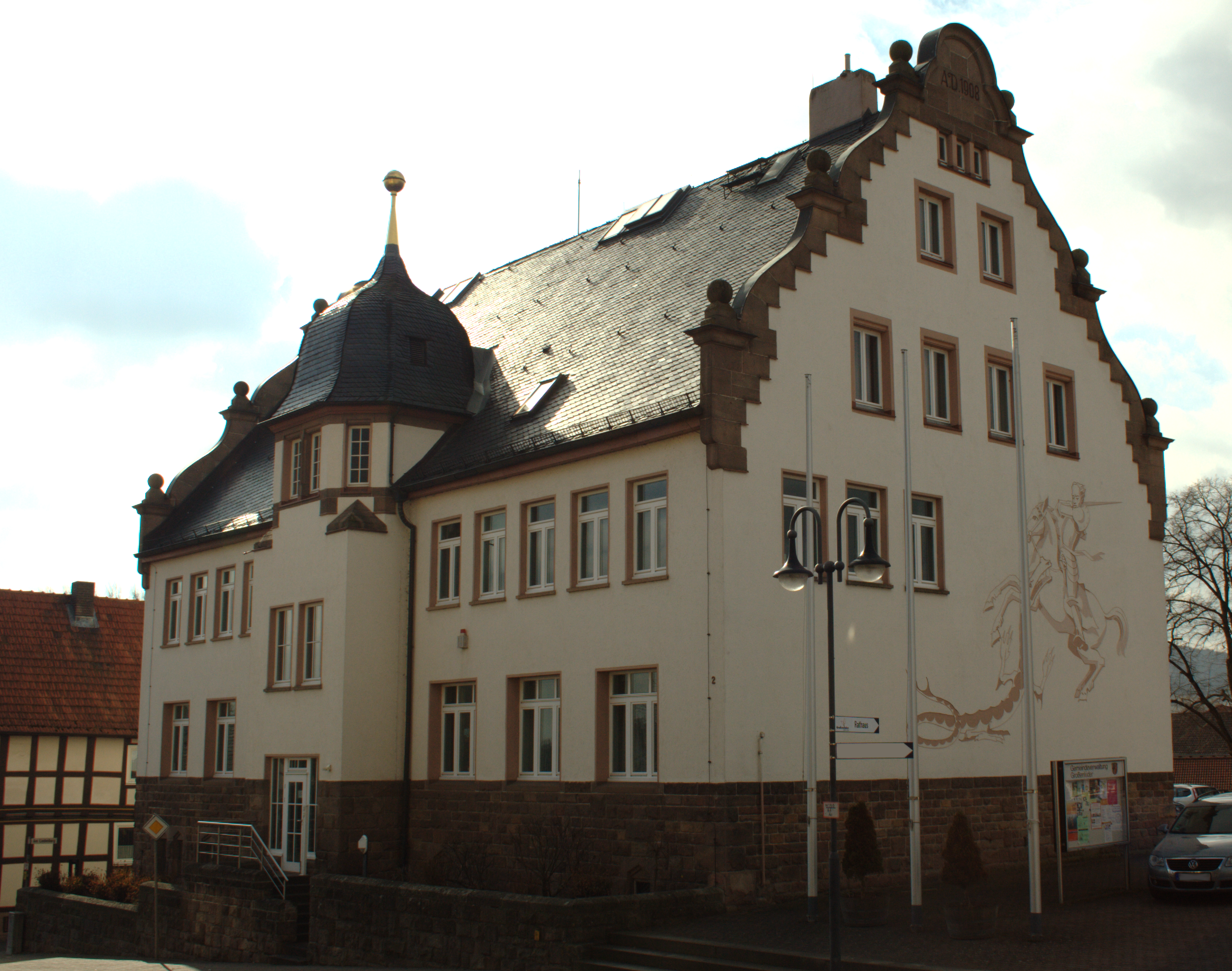 Grossenlueder Hessen town hall